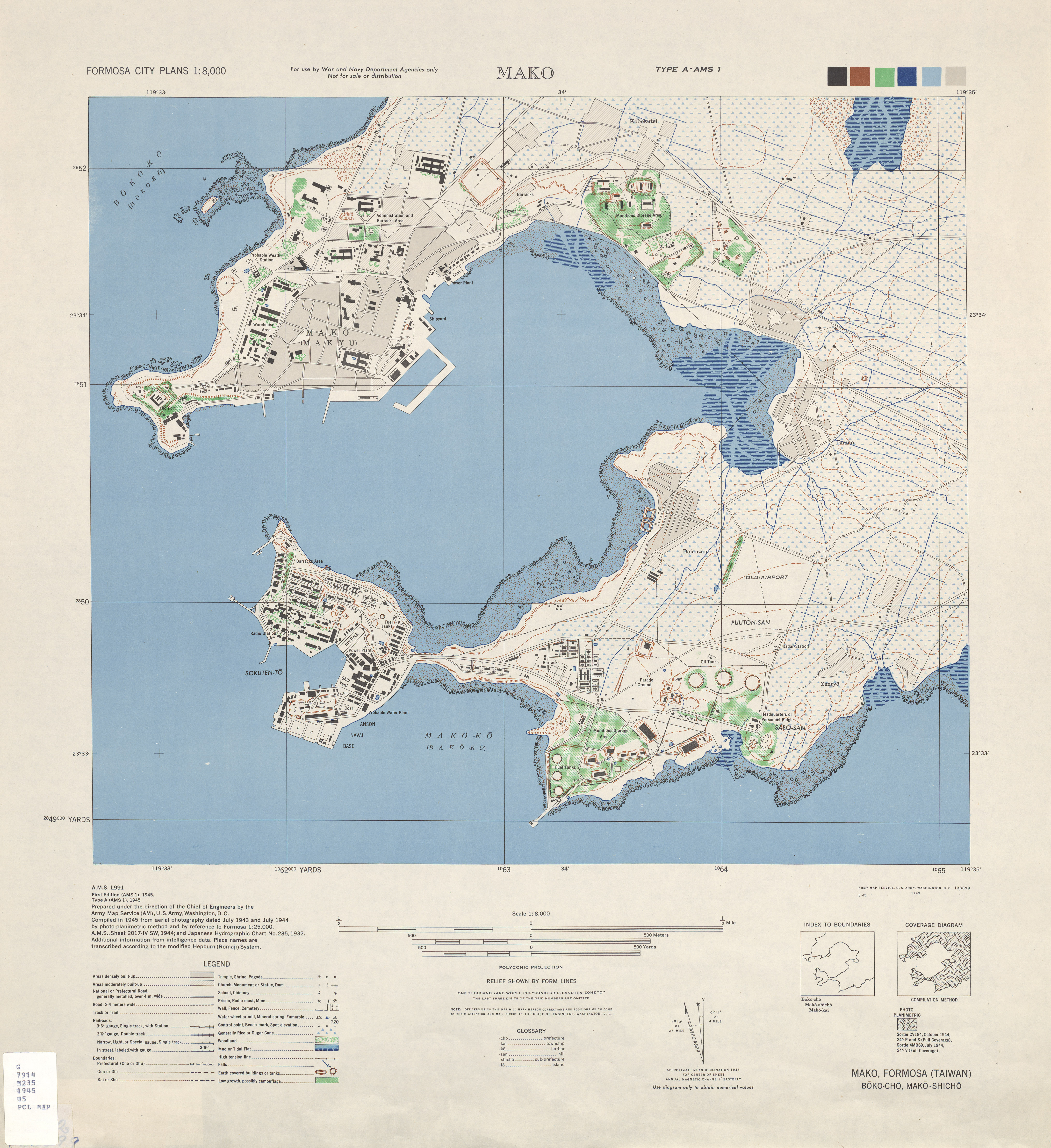 Mako 1:8,000 1945